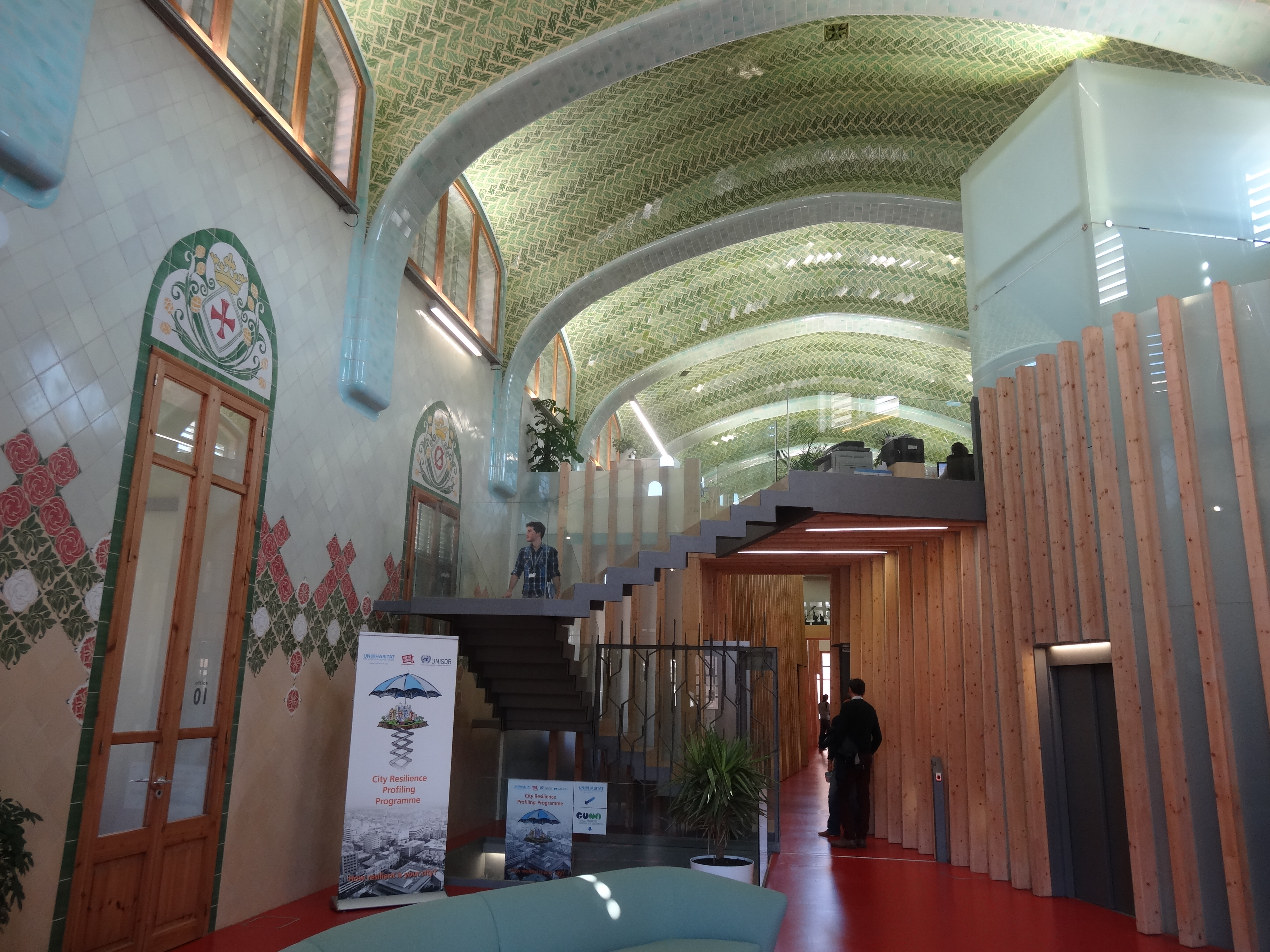 Pavilion of Saint Leopold, Hospital de la Santa Creu i Sant Pau, Barcelona.